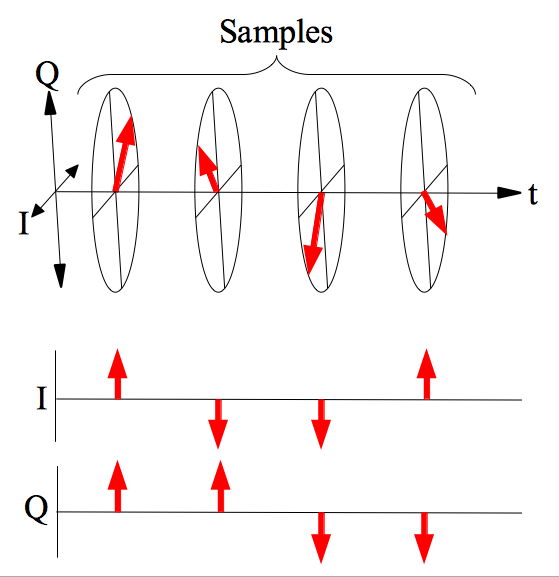 Illustration of I and Q signal sampling required for coherent radar signal processing.